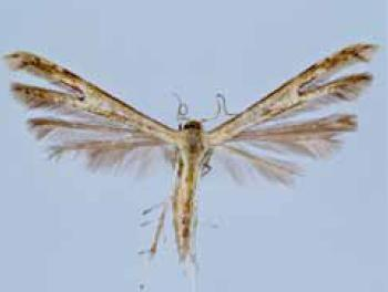 Neotropical species of the family Pterophoridae, part II. Zool. Med. Leiden 85